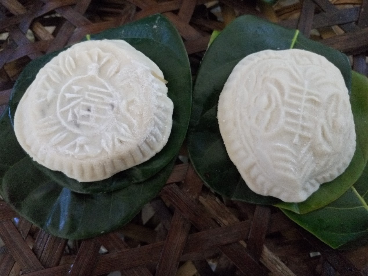 籺, using jackfruit leaves to seperate